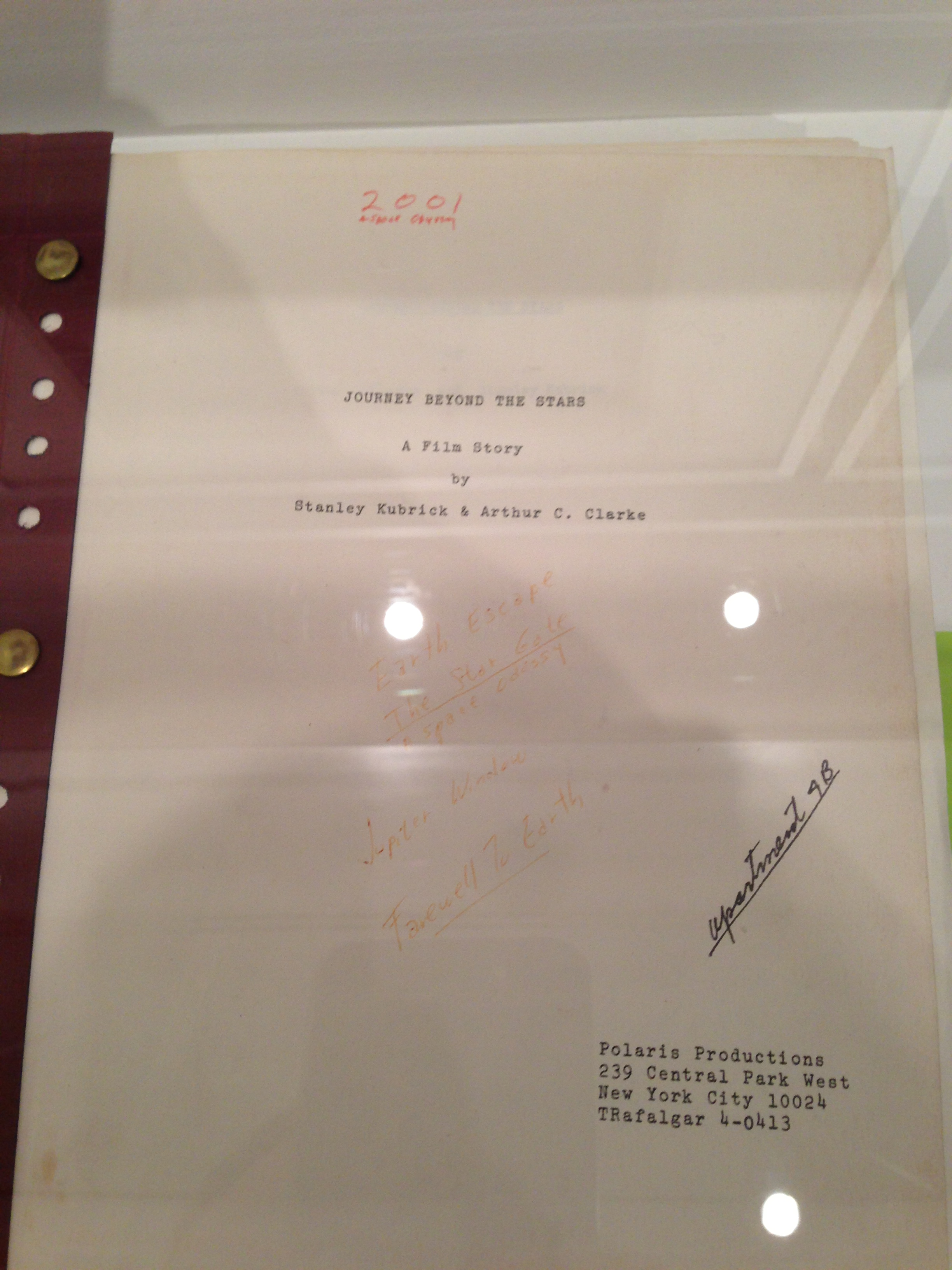 Stanley Kubrick exhibit at Los Angeles County Museum of Art.